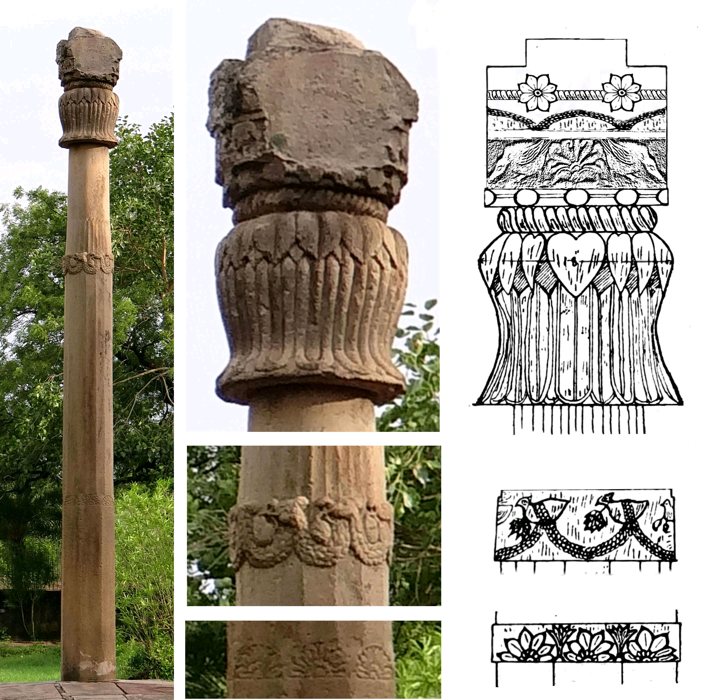 Heliodorus pillar with elevation. Some photographic details of the abacus are visible at [1]